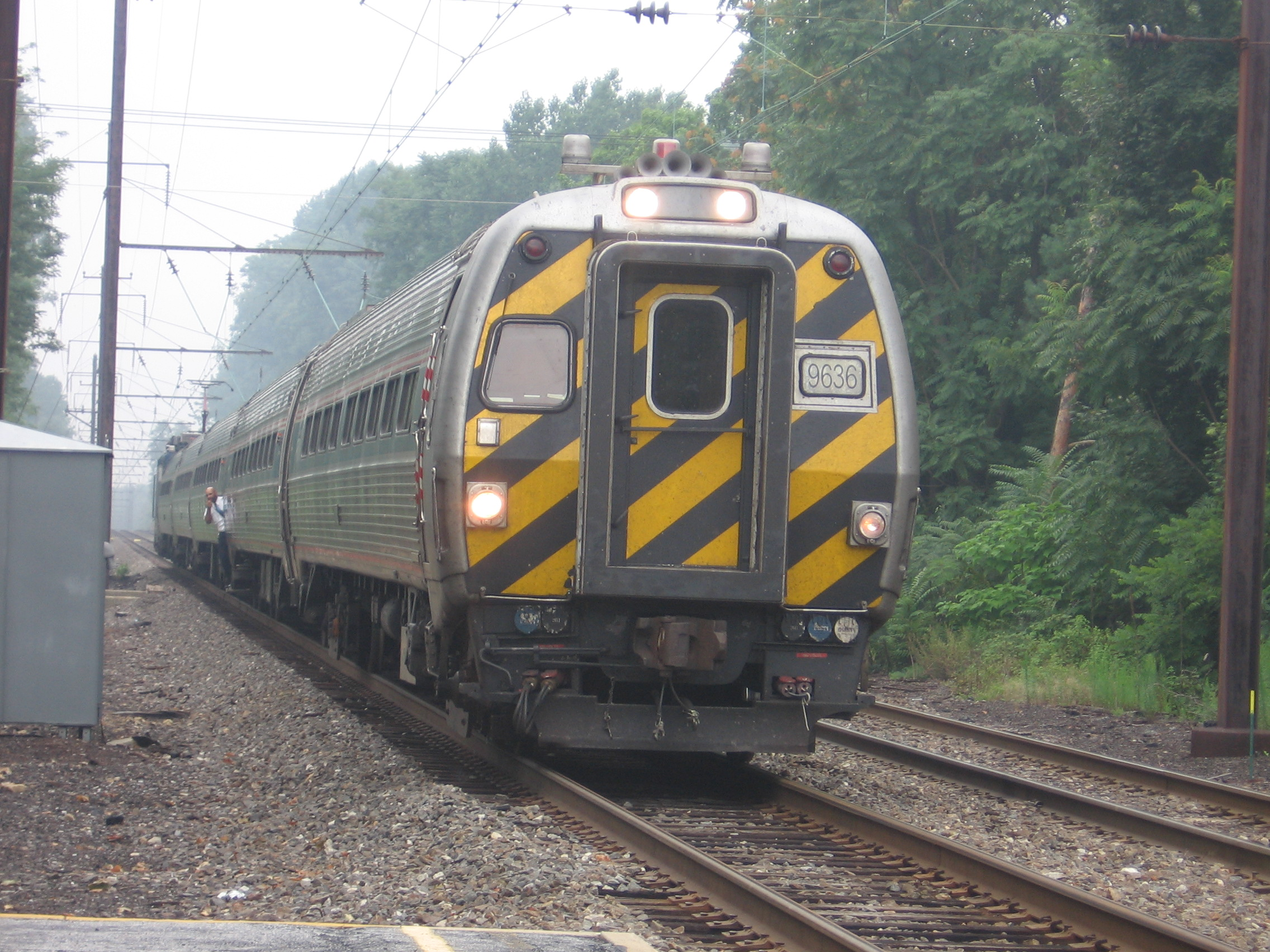 Keystone Service train being lead by the cab car, at Elizabethtown, Pennsylvania.